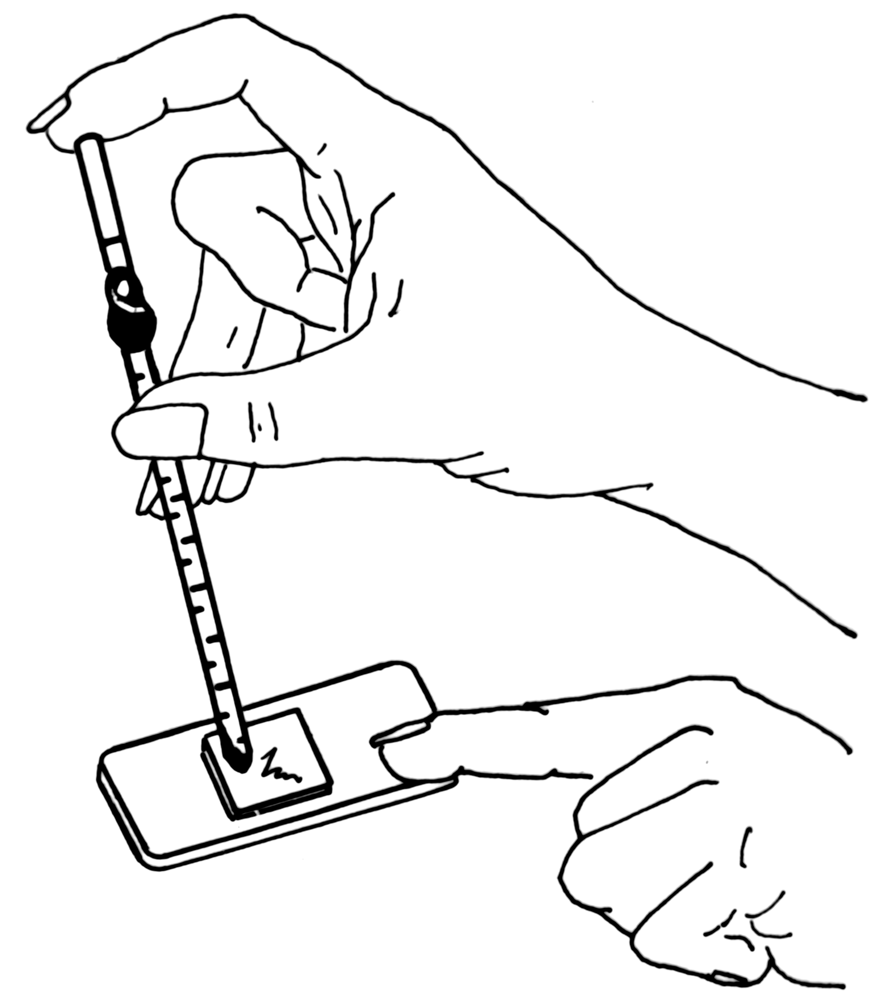 Line art drawing of pipette.